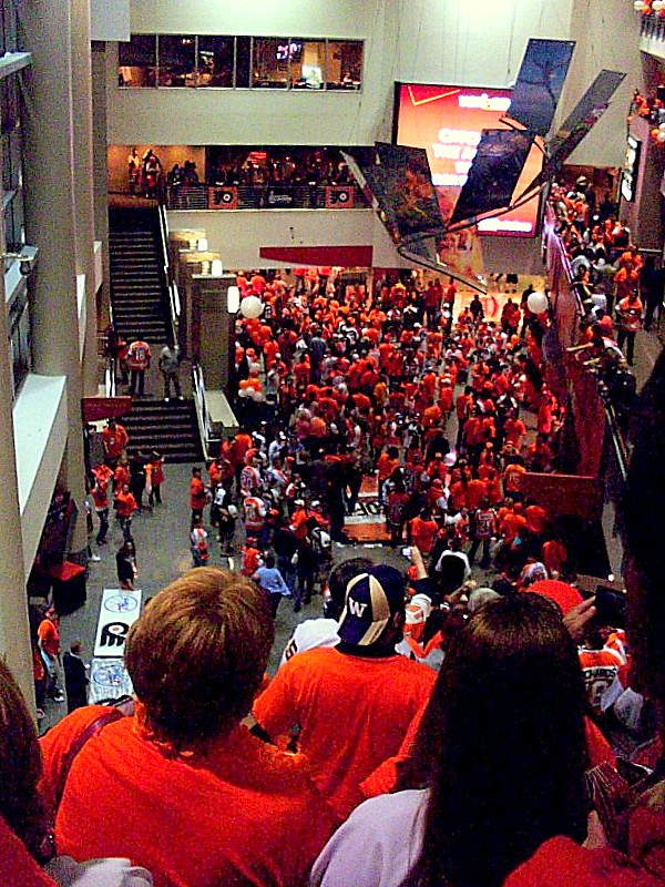 Flyers fans leaving Wells Fargo Center after Playoff Game in 2010.